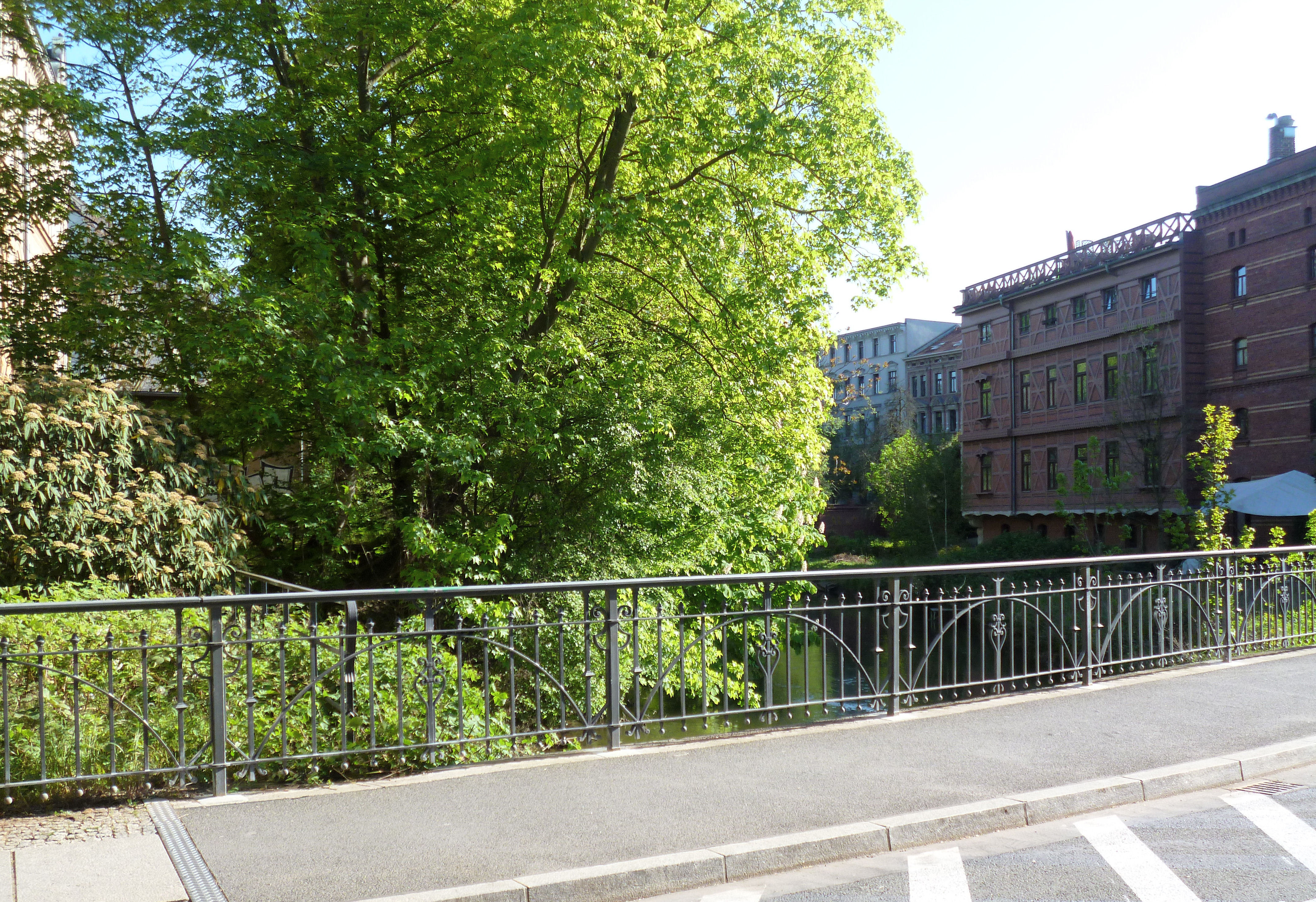 Bridge Mühlpforte over the Mühlgraben, Halle (Saale), iron bridge construction, built in 1890